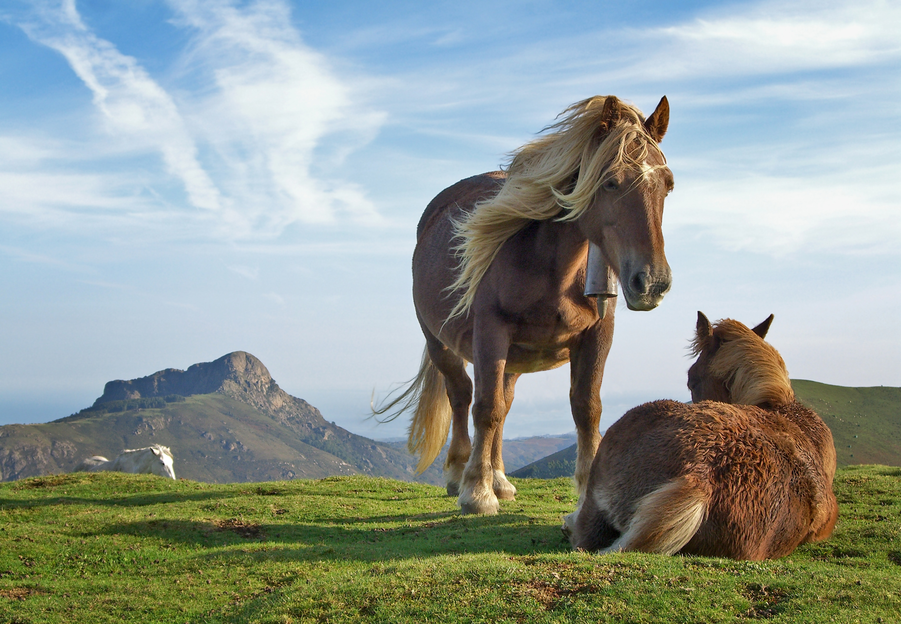 Pottok on Bianditz mountain in the western Pyrenees. Behind them Aiako Harria mountain can be seen. (One in horse in the background was removed)